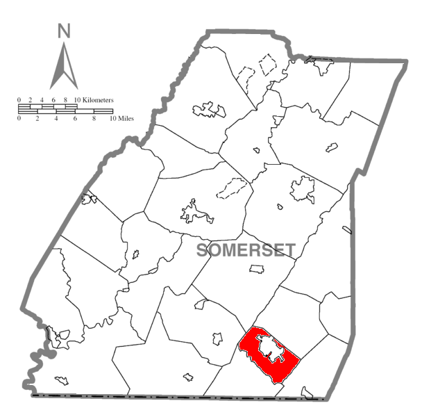 Map of Somerset County, Pennsylvania highlighting Larimer Township